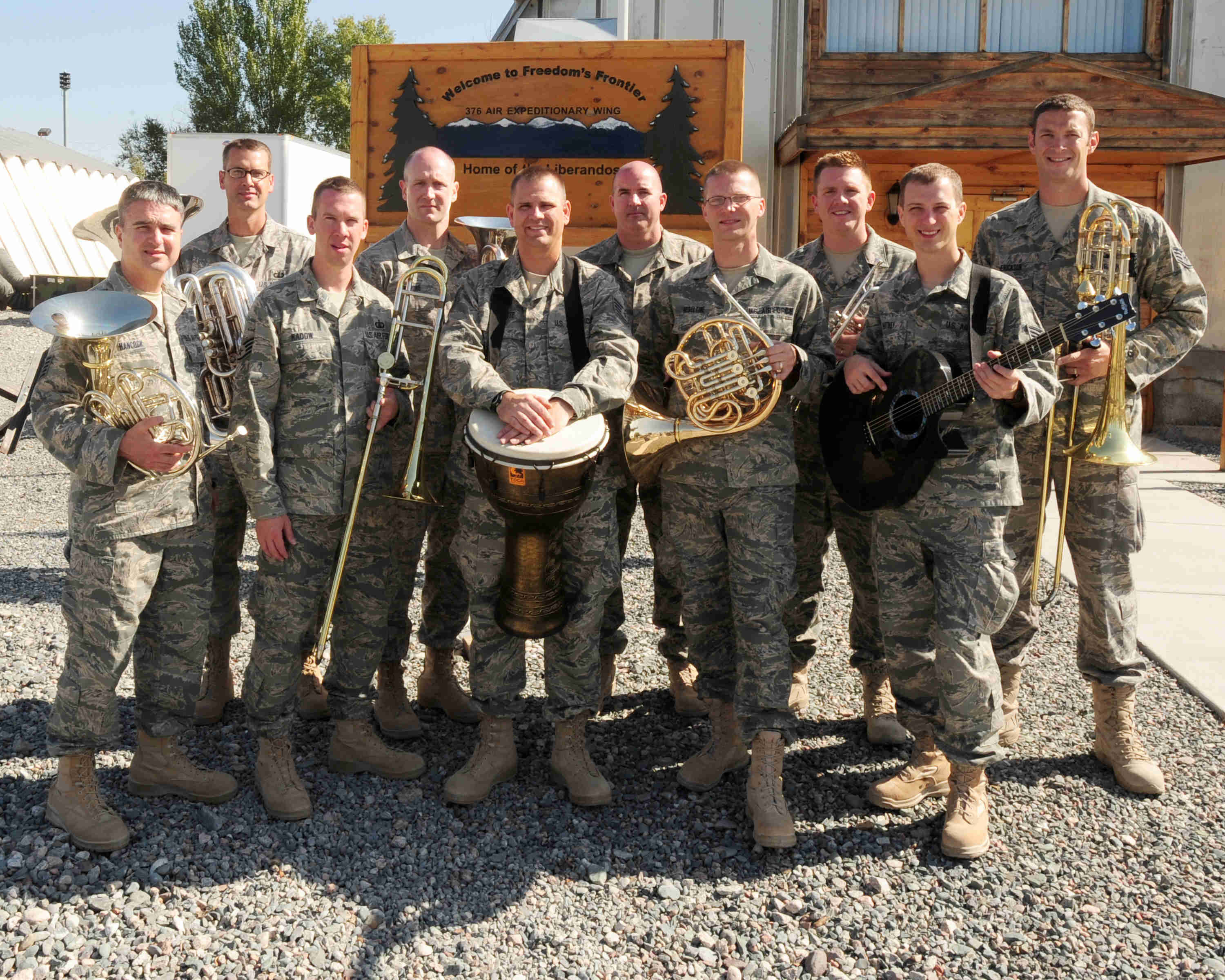 The U.S. Air Forces Central Command 'Falcon' Band became very popular in Kyrgyzstan after performing five shows throughout the country. The sergeants are stationed at a base in Southwest Asia and are deployed from Offutt Air Force Base, Neb. They are, from left, Tech. Sgt. Hughey Hancock, French horn, Staff Sgt. Mark Barnette, tuba, Staff Sgt. Benjamin Kadow, trombone, Tech. Sgt. Matthew Dunsmore, euphonium, Tech. Sgt. James Mangette, percussionist, Staff Sgt. Eric Proper, trumpet, Tech. Sgt. Patrick Heseltine, French horn, Staff Sgt. Jeffrey Reich, trumpet, Staff Sgt. Clinton Whitney, vocalist, and Staff Sgt. Matthew Erickson, bass trombone.